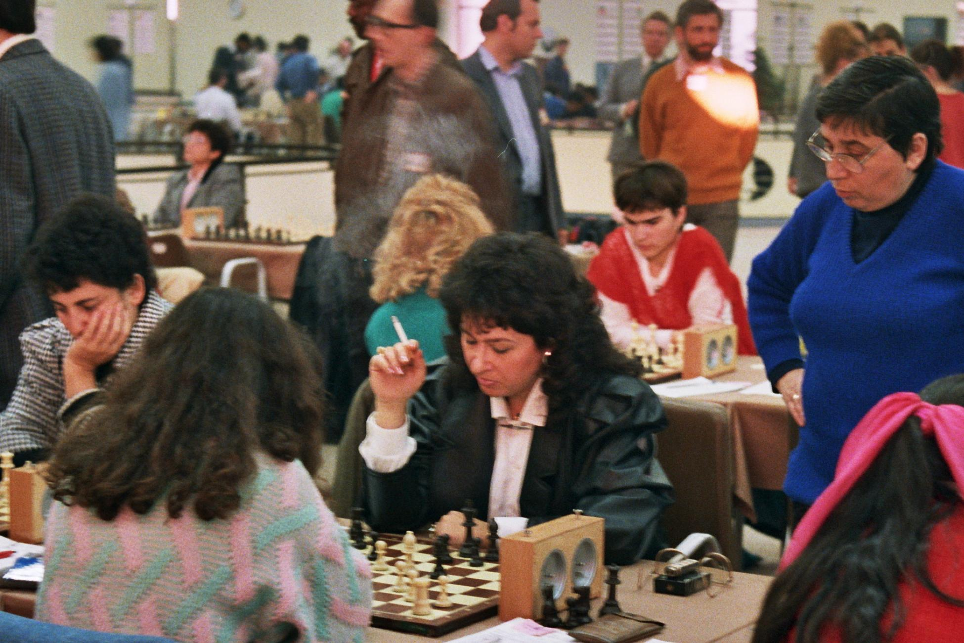 Podrazhanskaya, Glaz, Kristol, Chess Olympiad 1988 in Thessaloniki, Photographer Gerhard Hund.